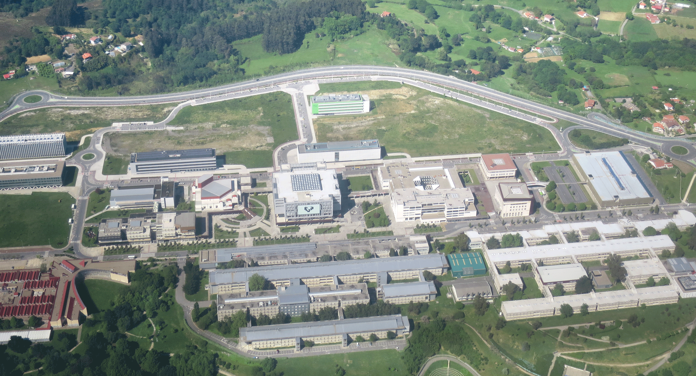 Aerial view of the Biscay campus of the University of the Basque Country, near Leioa.